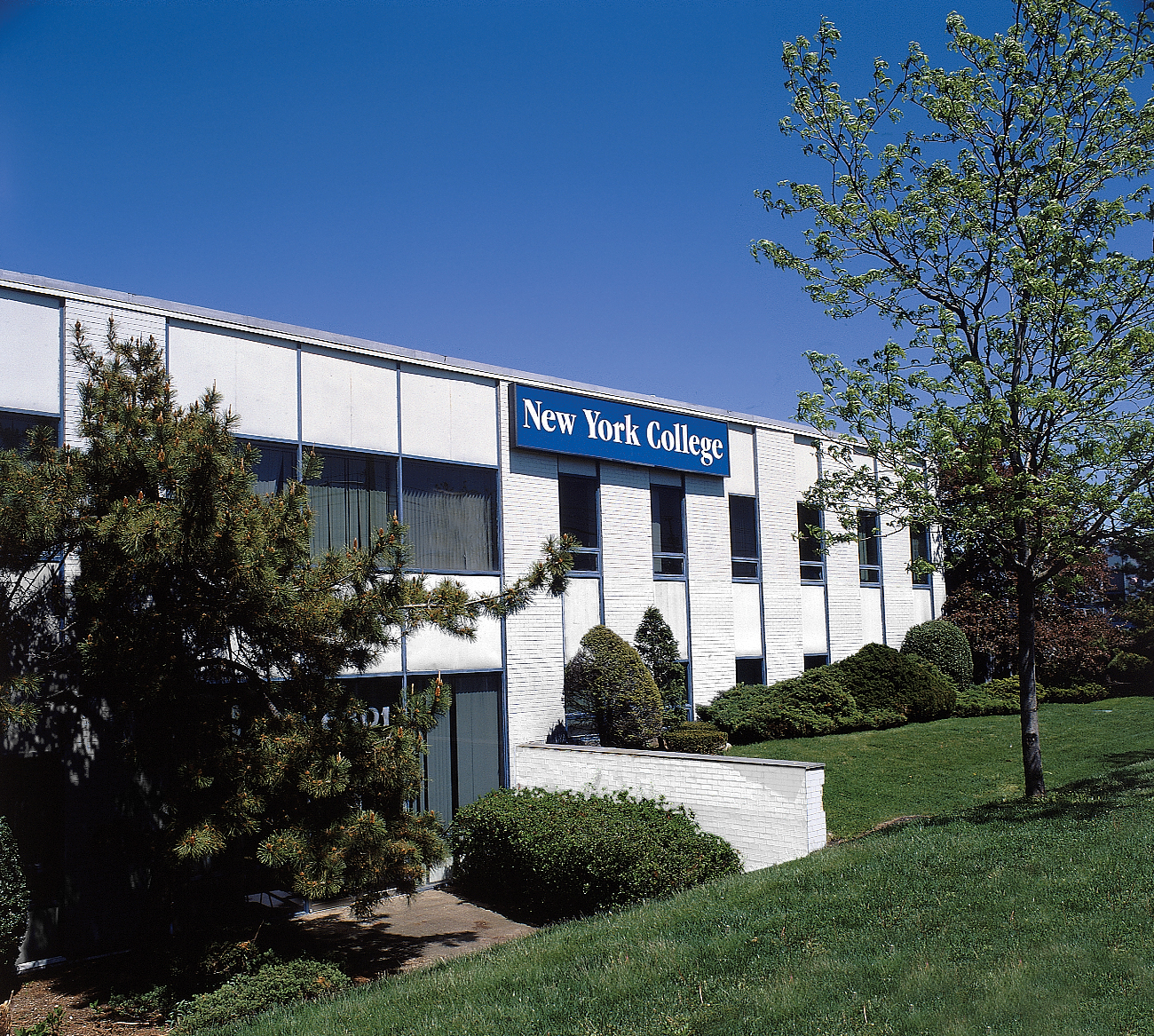 New York College facility in Syosset, Long Island